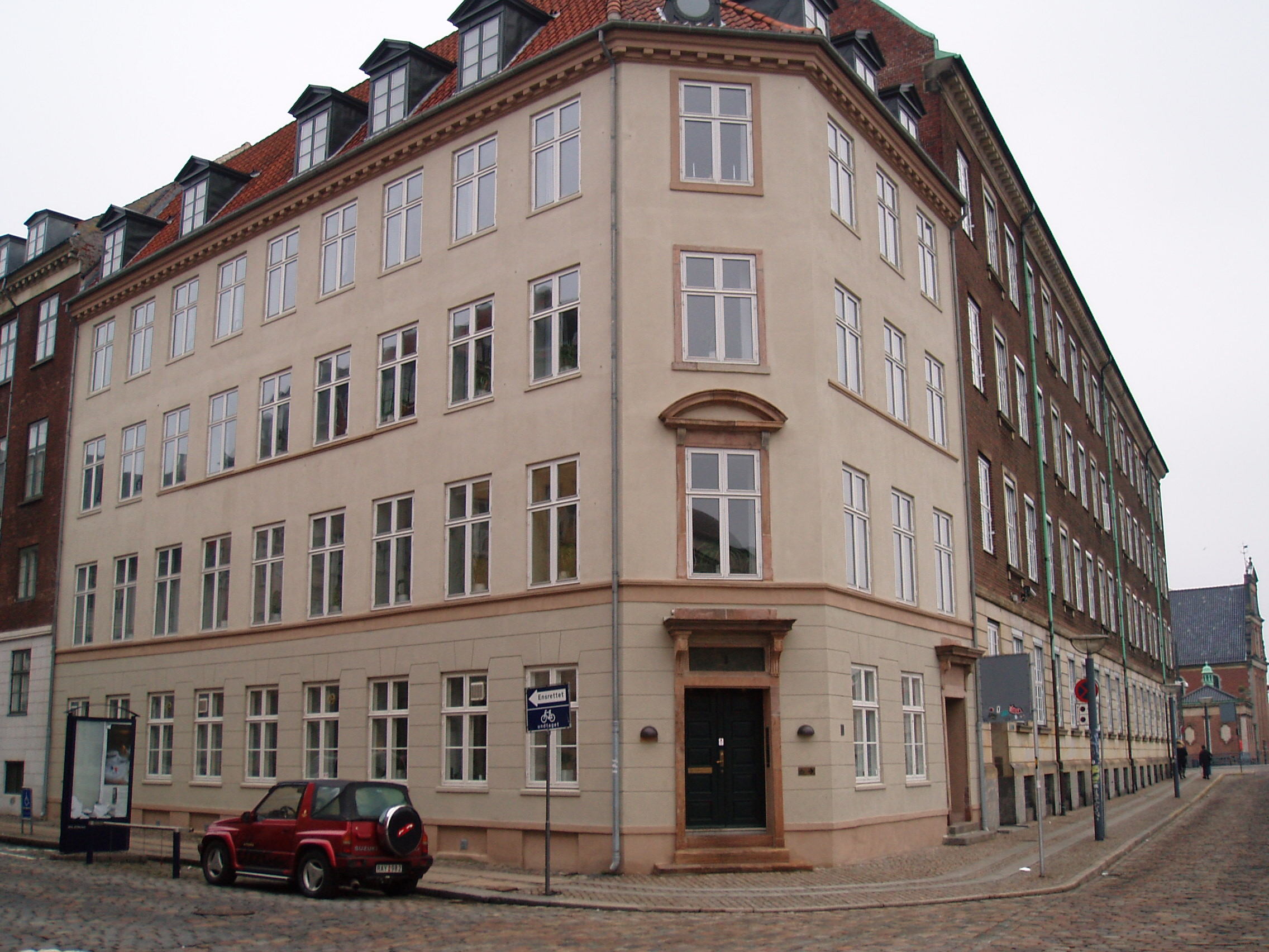 Entrance to Danish Ministry of Employment sitet at the end of Danish Ministry of Defence.